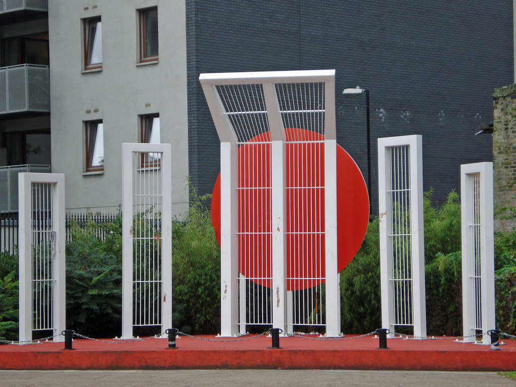 In memory of Altab Ali, this is a smaller replica (in the United Kingdom) - of Shahid Minari (Bengali Martyrs Memorial) in Dhaka, Bangladesh